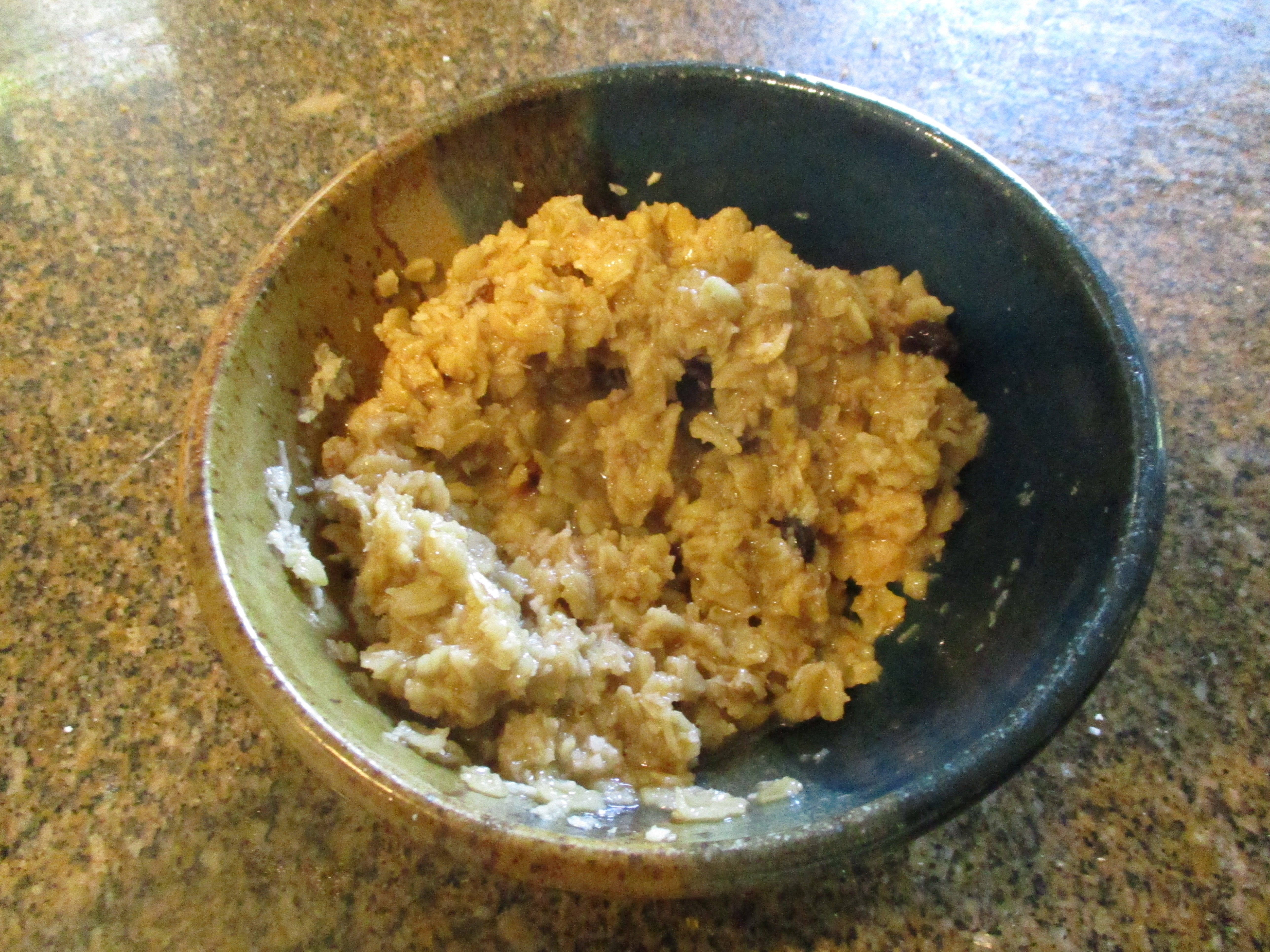 butter? shredded coconut